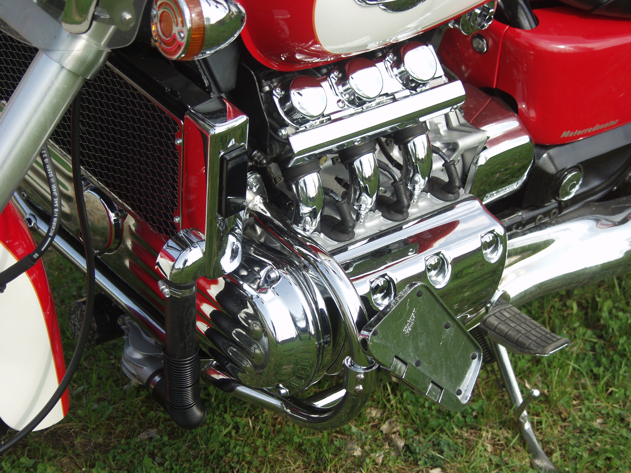 Engine of Honda motorbike F6C Tourer (Valkyrie Tourer) in two-tone color combination Pearl Red/Pearl Ivory